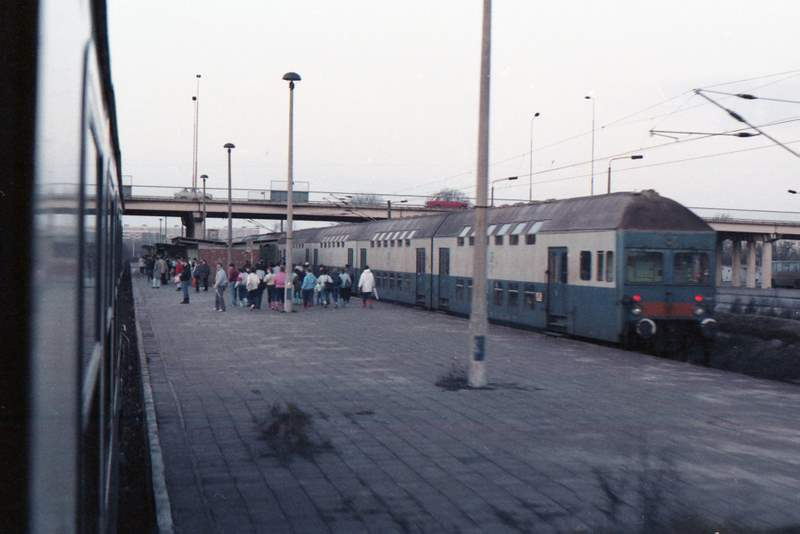 Near the German Baltic coast in what was then "East Germany", December 1987.